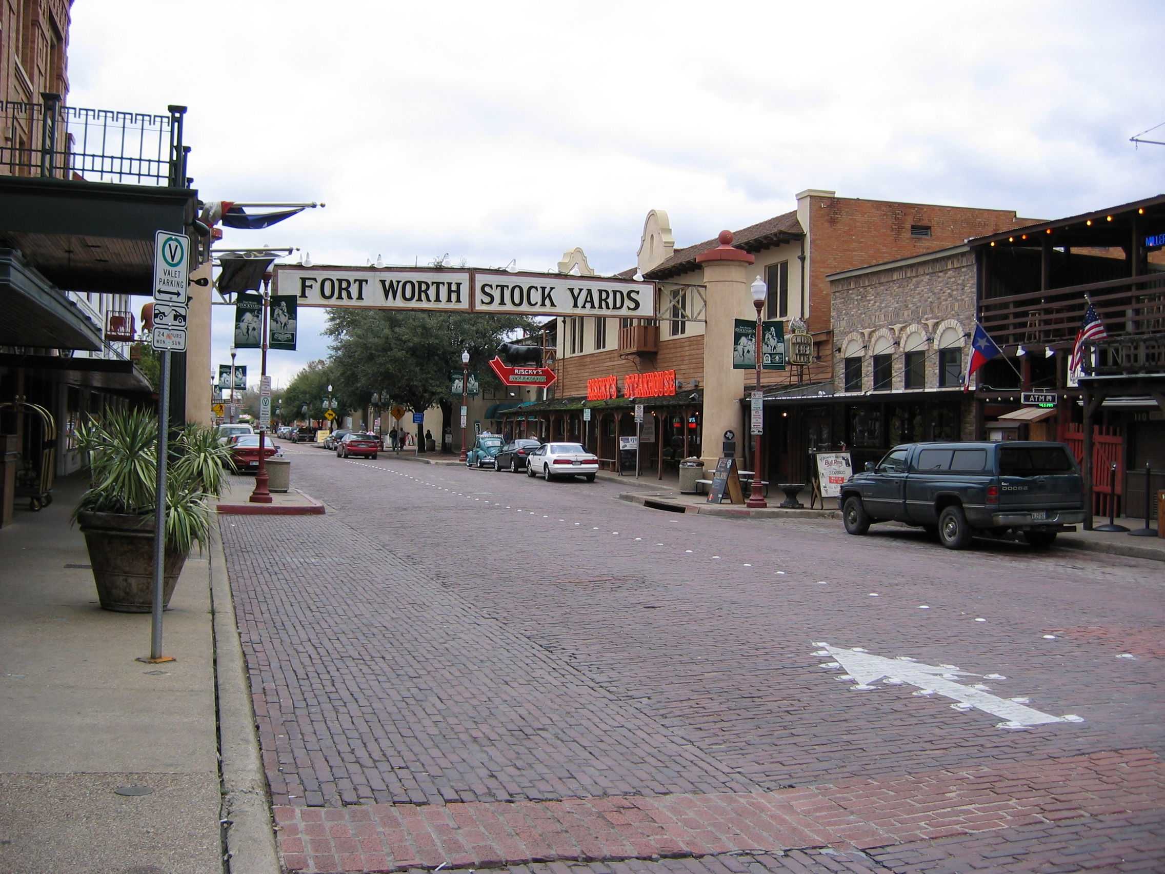 Street view of entrance to Fort Worth Stockyards, 2005